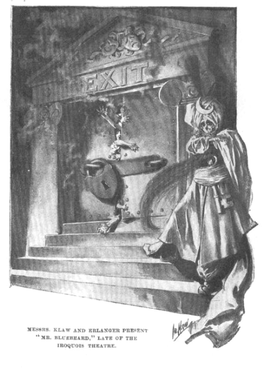 editorial cartoon on the 1903 Iroquois Theater fire, Chicago, Illinois, originally published in Life magazine, January 21, 1904 (this version from January 19, 1905). Cartoonist unidentified. Online source at